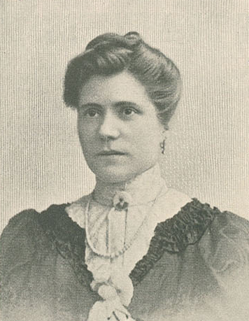 Luísa Robertes (1874-1958), Portuguese schoolteacher and women's rights activist